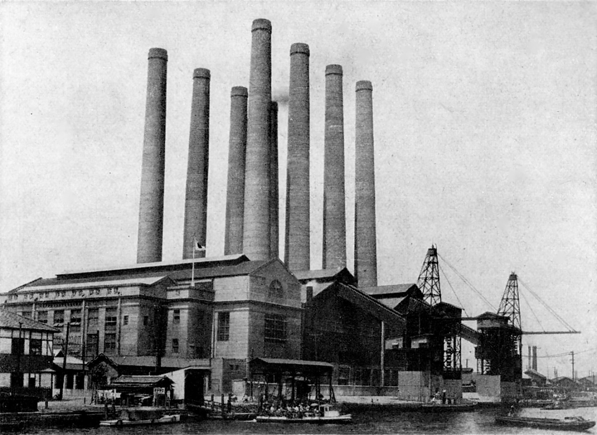 Kasugade second power station (1922 - 1957)